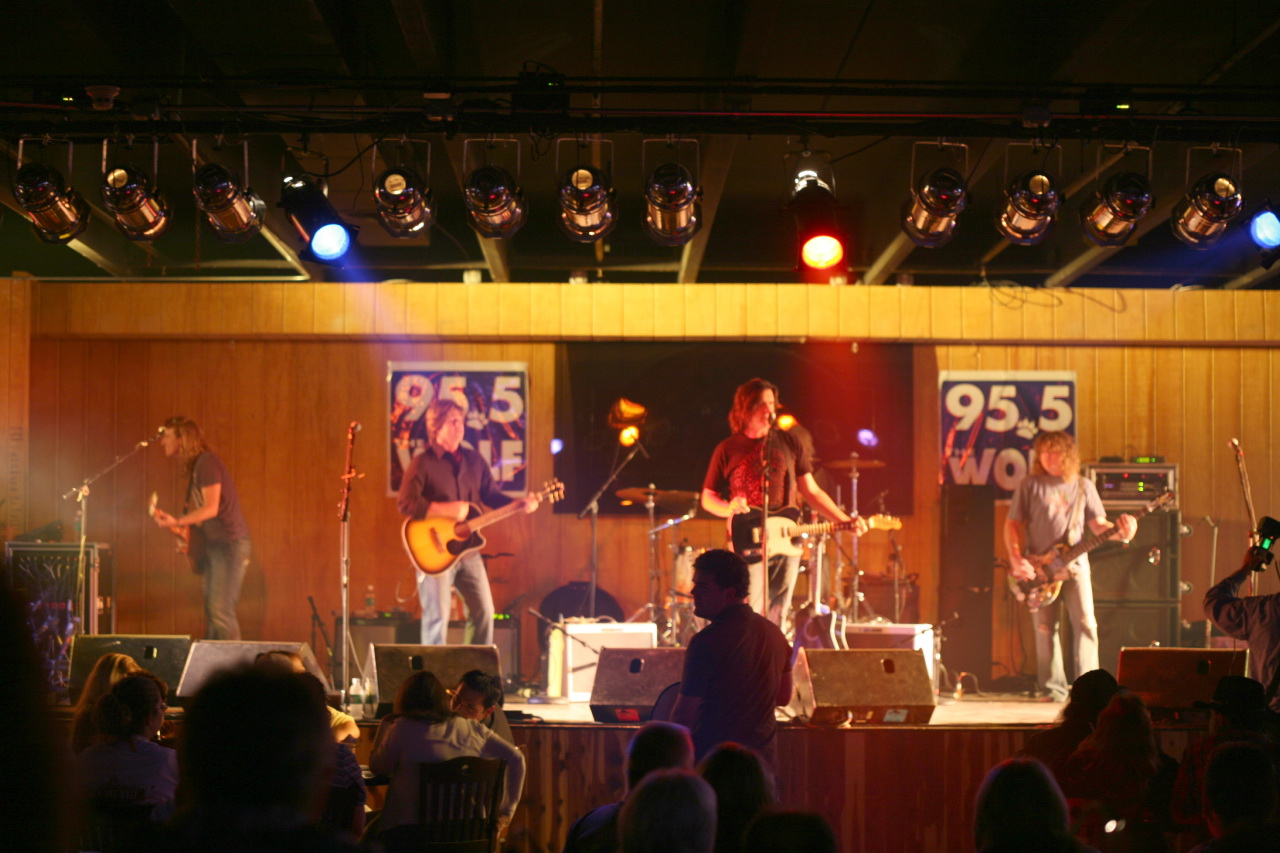 Warner Bros. signed Little Texas in 1989, and a couple of years later, their first radio release, “Some Guys Have All the Love,” became a top ten hit, as did their next single, “First Time for Everything.” After the album First Time for Everything was released, five singles reached the top of the charts.